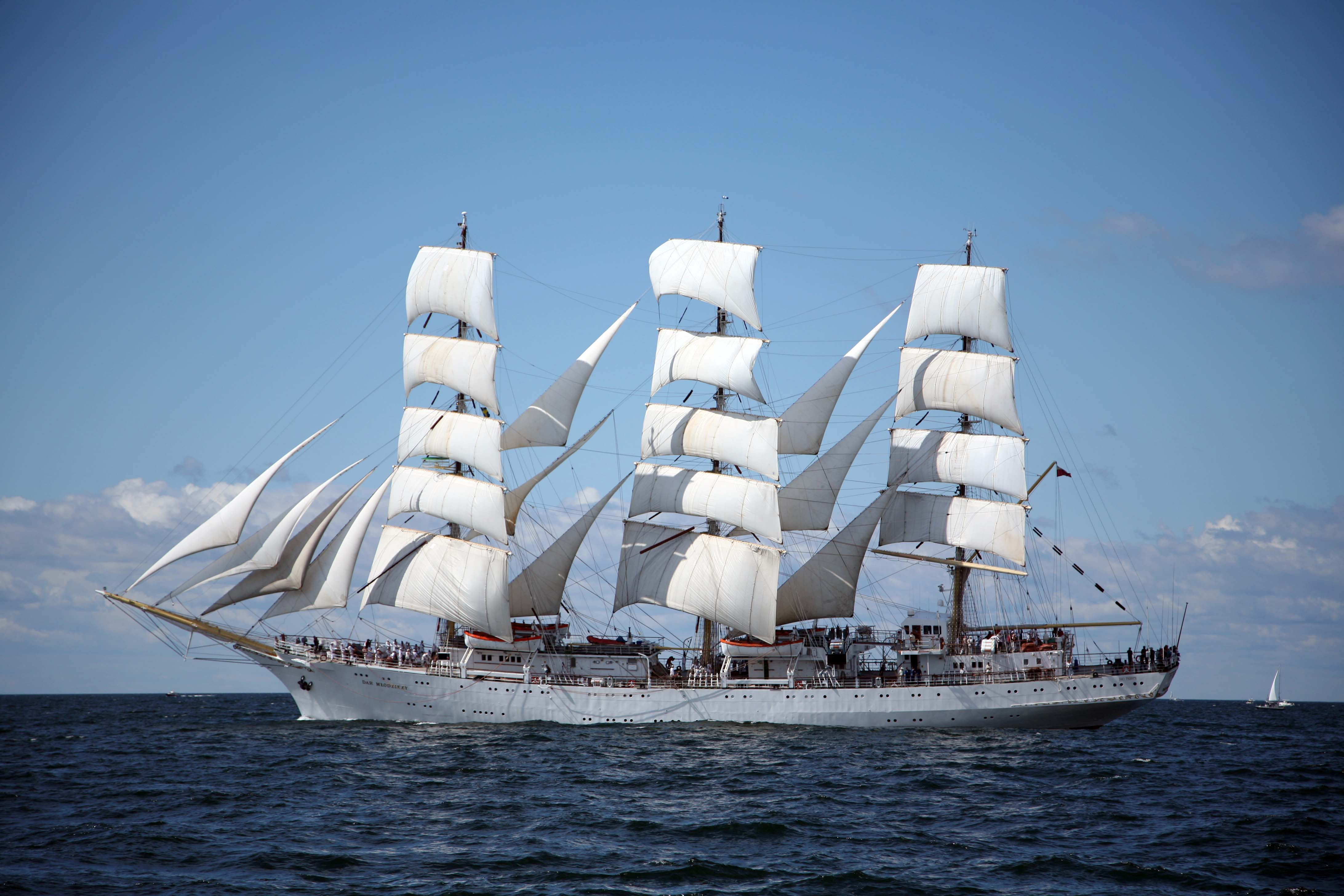 Polish sail training ship Dar Młodzieży at the Tall Ships' Races 2007